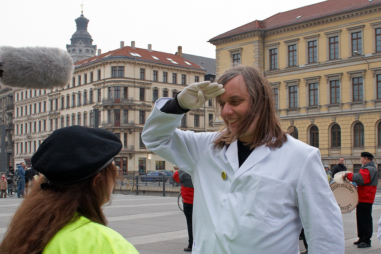 Steve Kurtz (Critical Art Ensemble) performing Target Deception in Leipzig